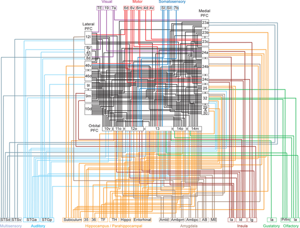 Connectivity diagram around frontal lobe of Macaque. Connectivity diagram showing interconnections of frontal reward and decision-making networks with sensory, limbic, and motor systems. In this diagram, for clarity, only intermediate and strong projections to the frontal cortex are shown.